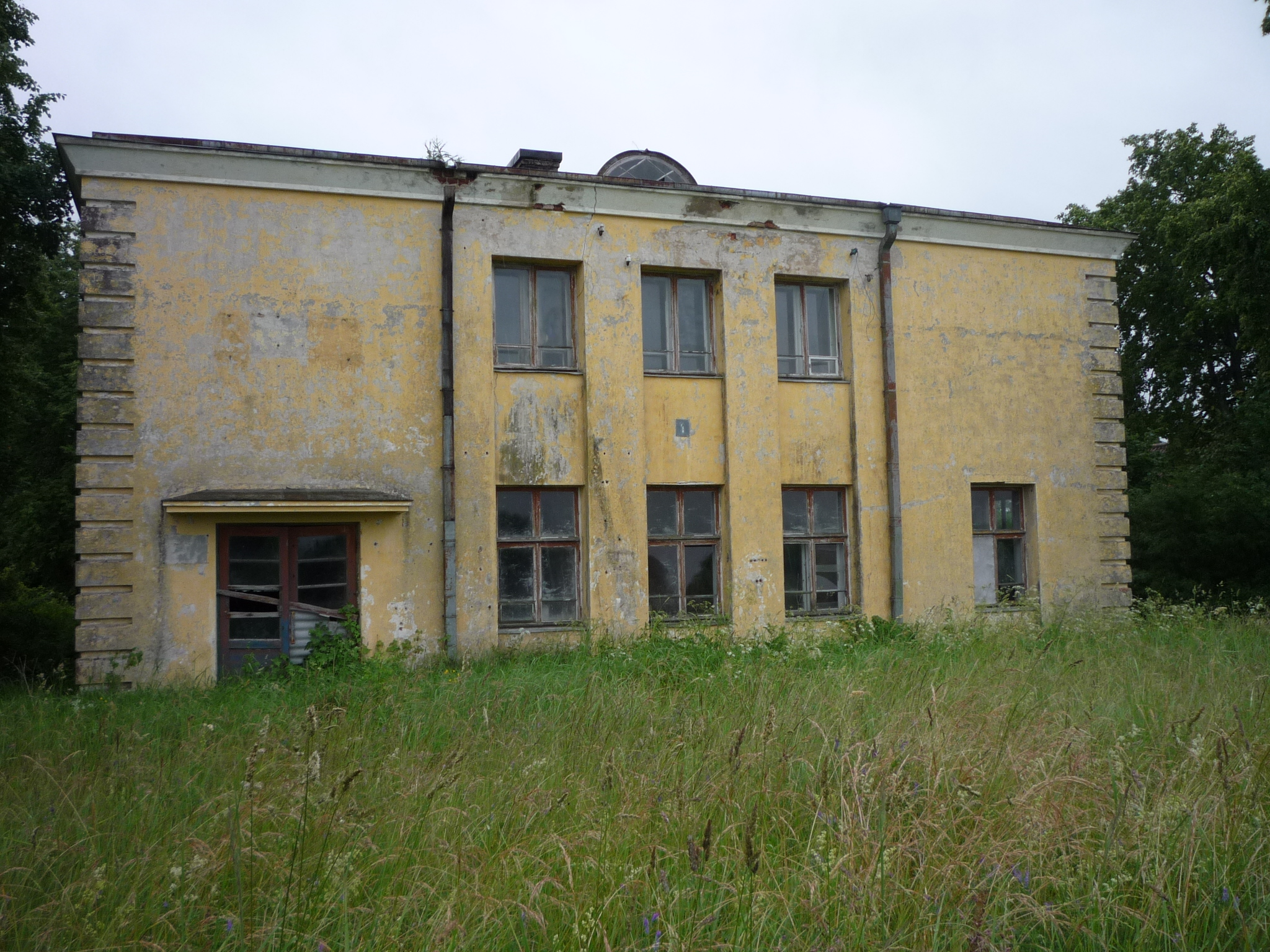 Old Rootsi railway station building. Seira village, Lihula parish, Lääne county, Estonia.